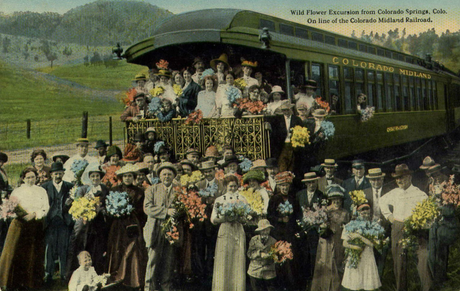 Photo postcard of a wild flower excursion from Colorado Springs on the Colorado Midland railway.